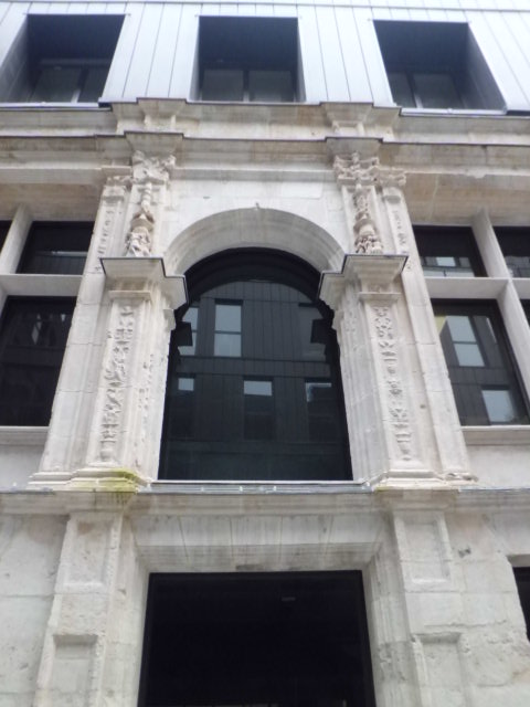 Renaissance decoration